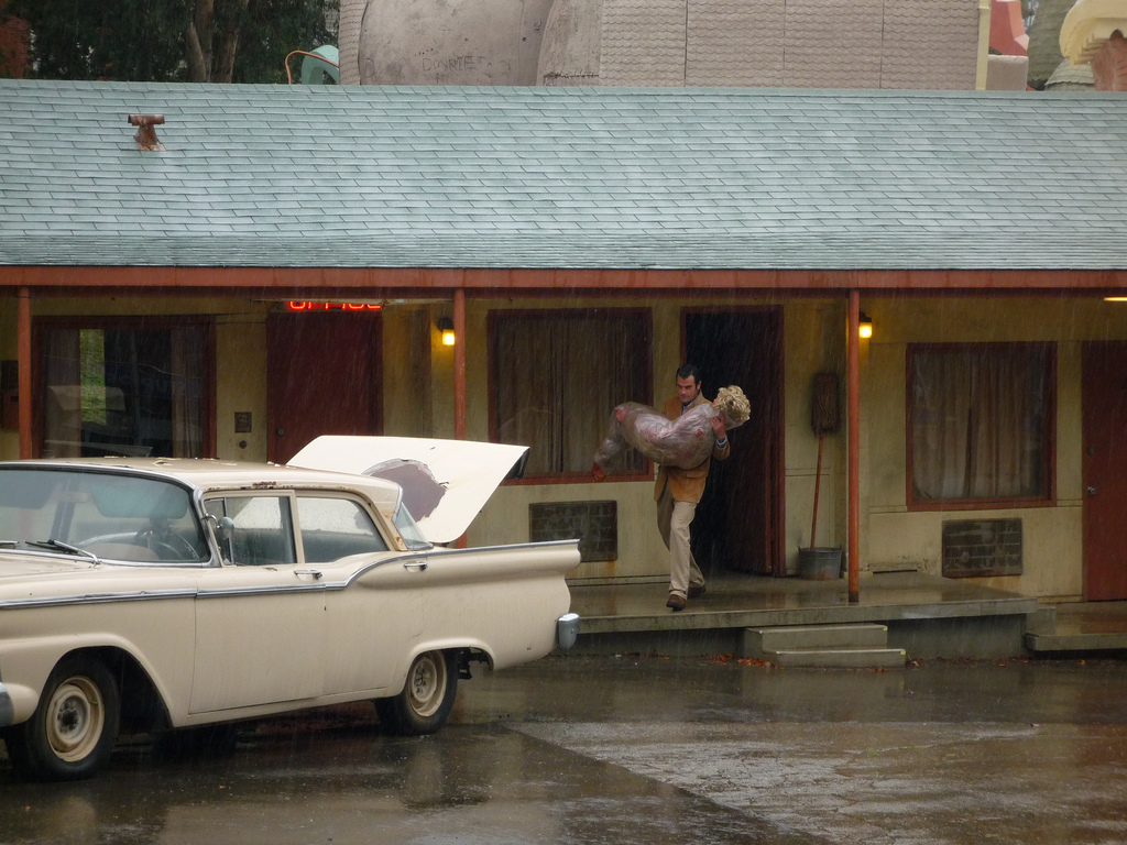 Picture I took myself while at Universal Studios Hollywood. Original here